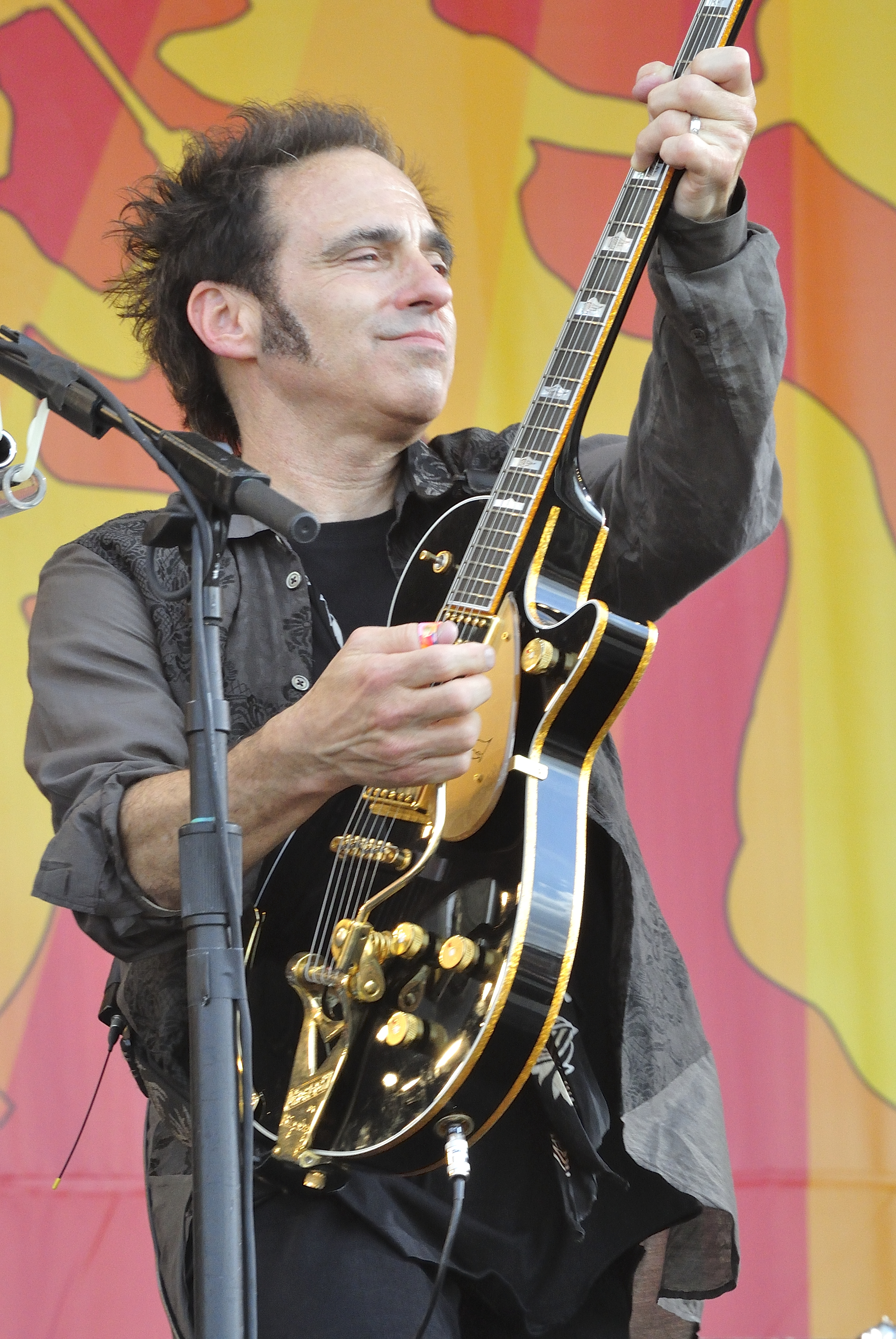 Nils Lofgren performing with Bruce Springsteen and The E Street Band at the 2012 New Orleans Jazz & Heritage Festival.